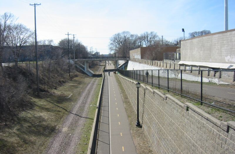 A look at the Midtown Greenway Trail from the Nicollet Avenue bridge in Minneapolis. The rock on the left side is former ballast from the Milwaukee Road line.